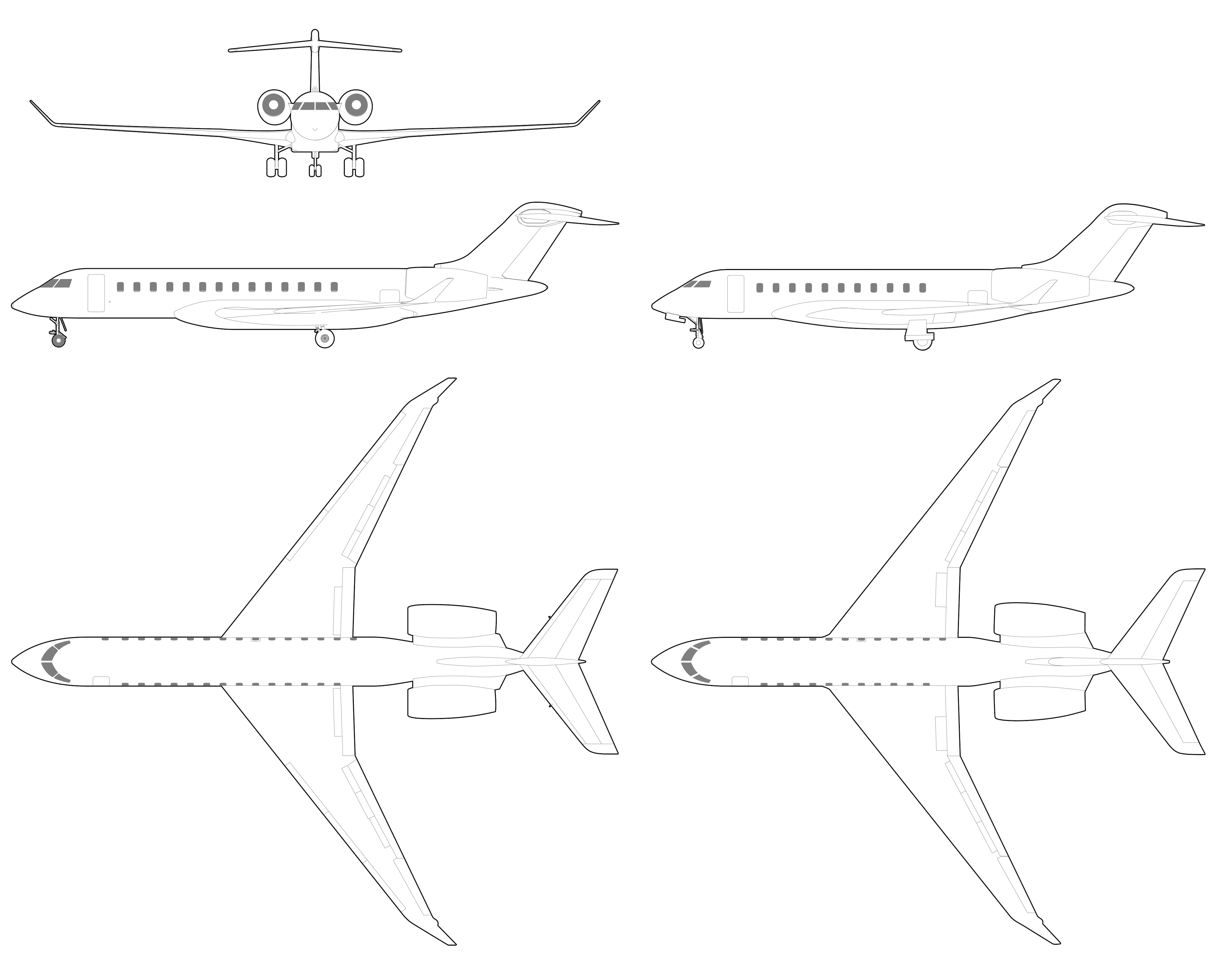 Bombardier Global 7000 (left)/8000 (right) three views drawing, based on global-7000 and global-8000